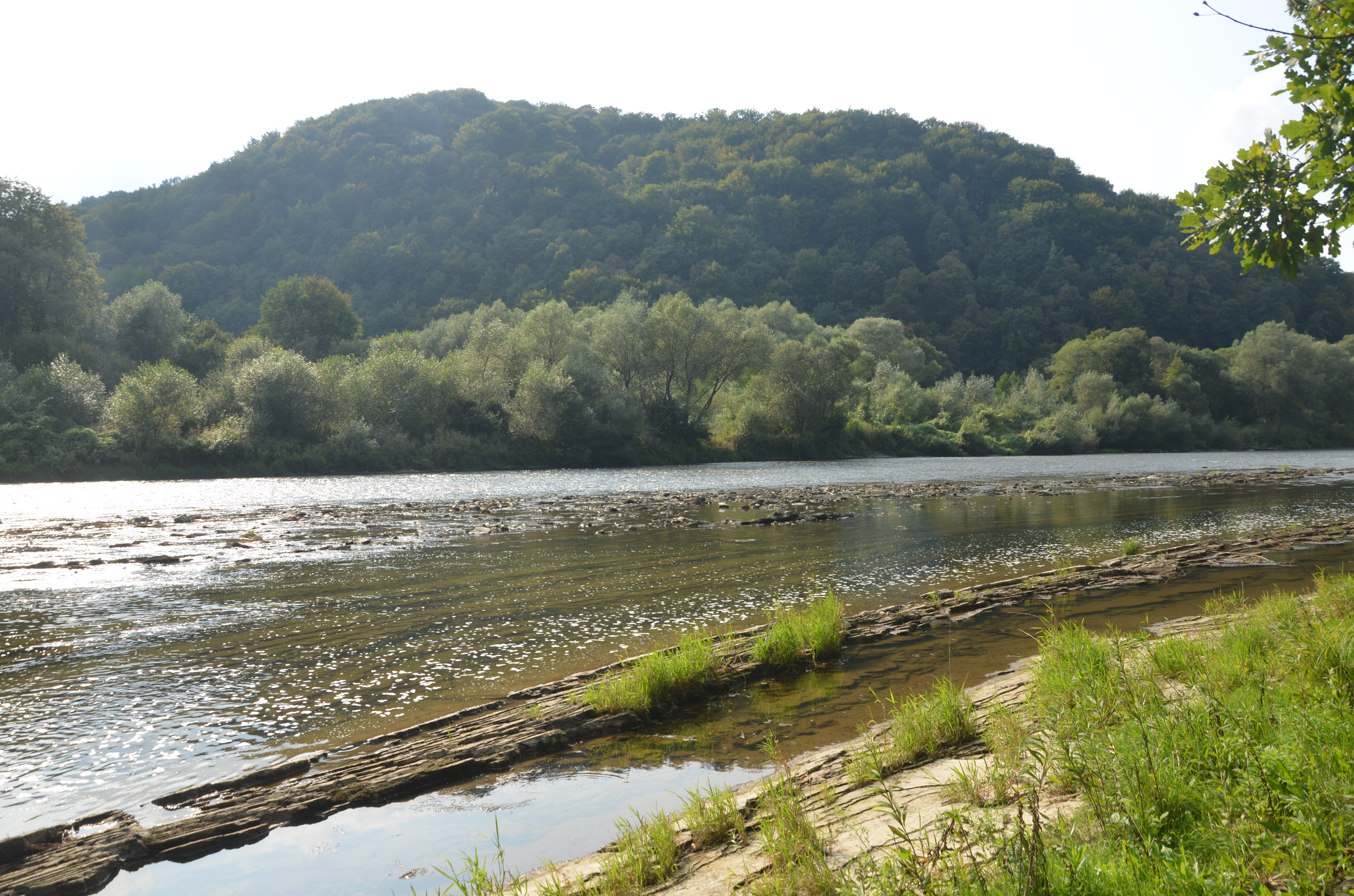 Sanok (Trepcza) Gord